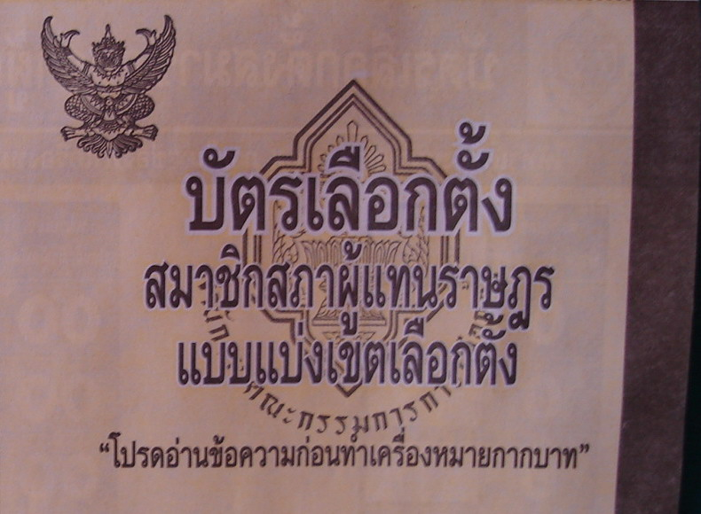 Thai general election, 2007. Picture take in Ban Khung Taphao Uttaradit,Thailand. (Thai general election, 2007)